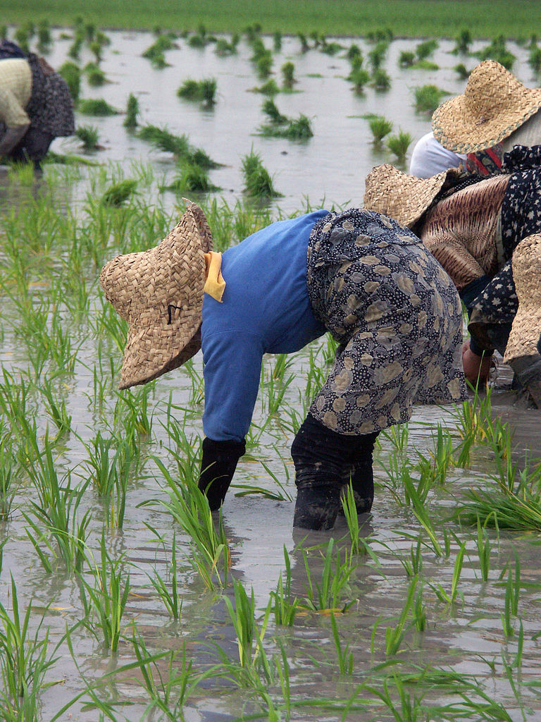 Women in rice fields in Mazandaran, Iran